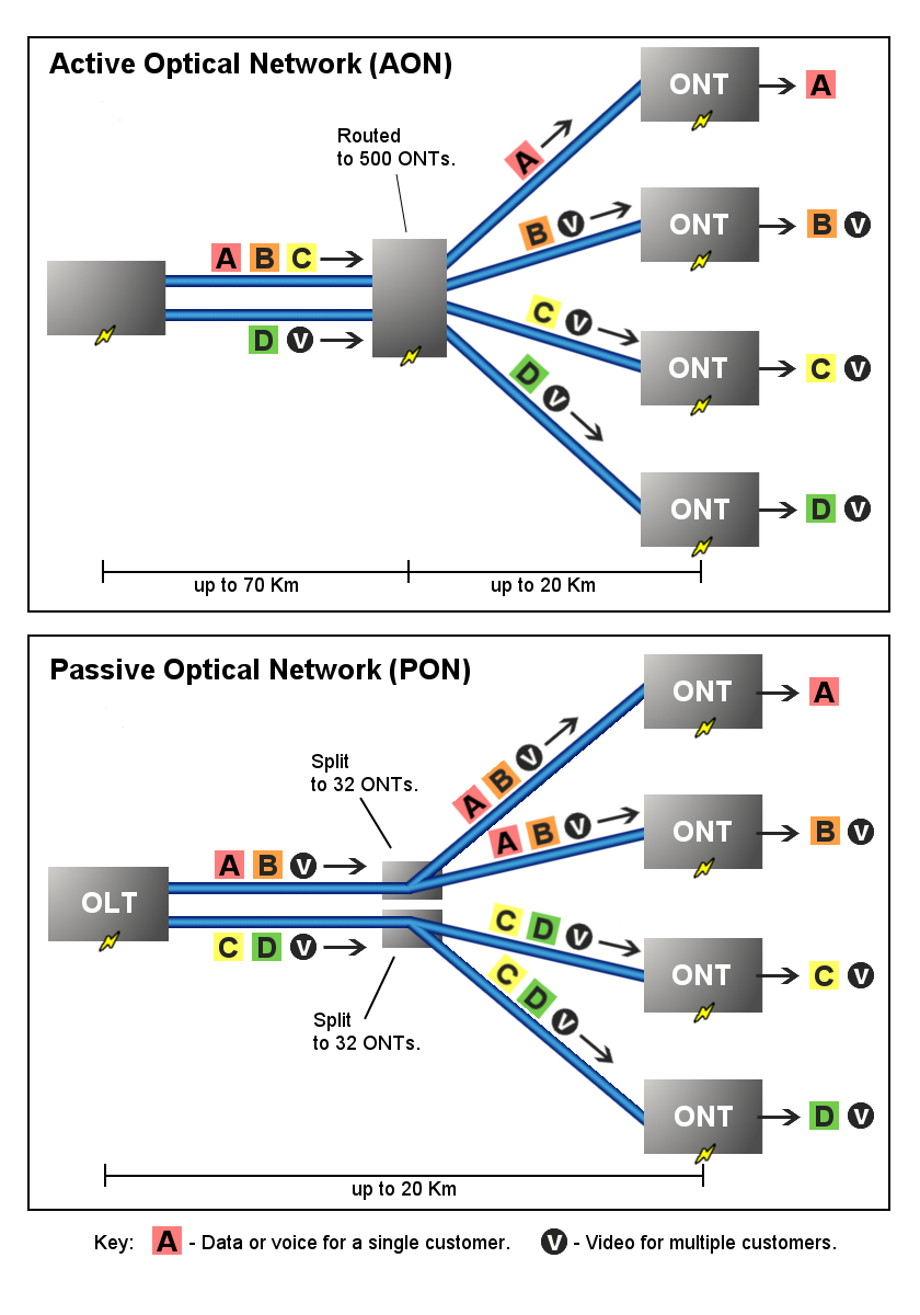 This comparison shows how a typical active optical network handles downstream traffic differently than a typical passive optical network. The type of active optical network shown is a star network capable of multicasting. The type of passive optical network shown is a star network having multiple splitters housed in the same cabinet.